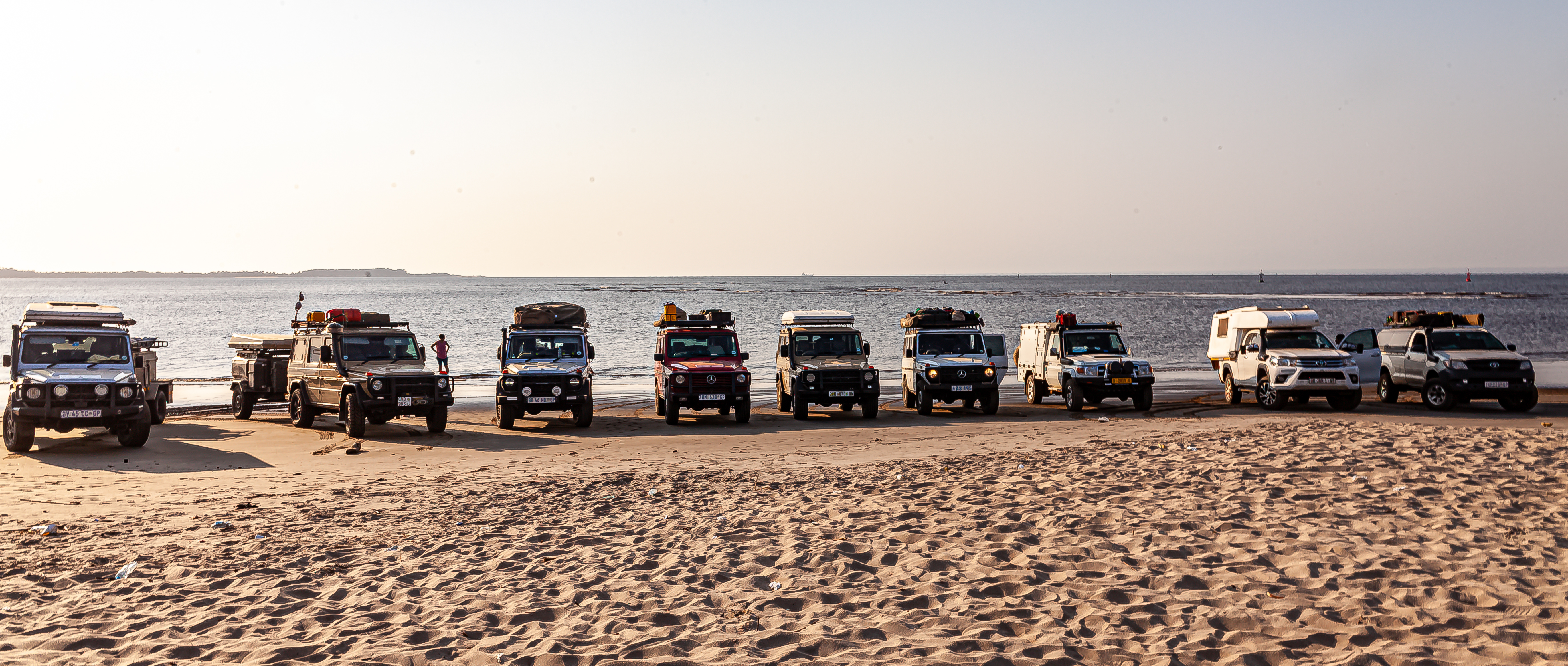 Bakkies on the river kongu river mouth on the Atlantic ocean in Soyo This is an image with the theme "Africa on the Move or Transport" from: Angola